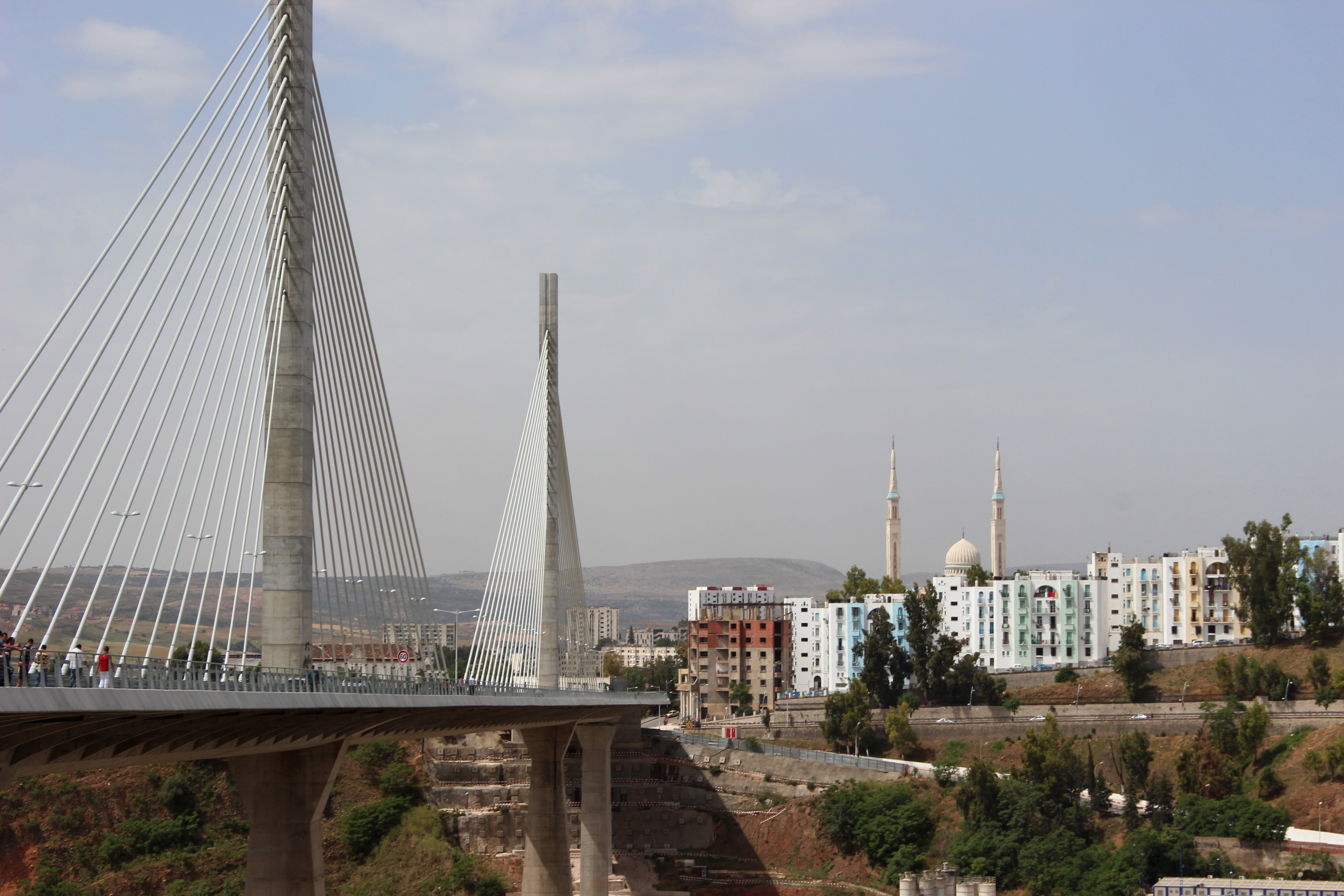 Salah Bey bridge or the geant bridge with Amir Abdelkader mosk Constantine